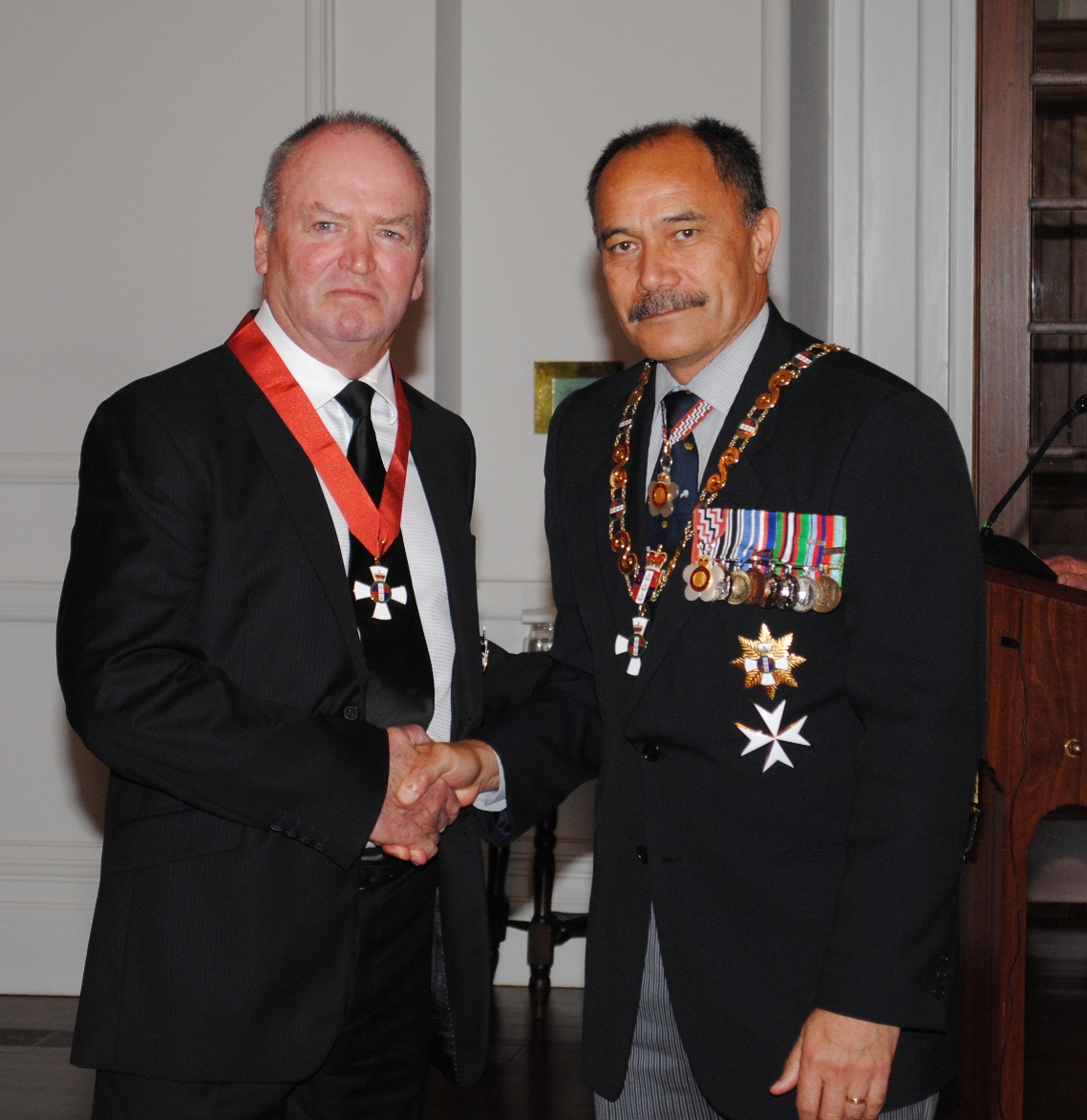 Governor-General of New Zealand Sir Jerry Mateparae awards the knighthood of the Order of Merit to Graham Henry, former coach of New Zealand rugby union team for their victory in the 2011 Rugby World Cup.